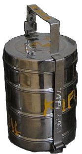 dawwa (Indian lunchbox)